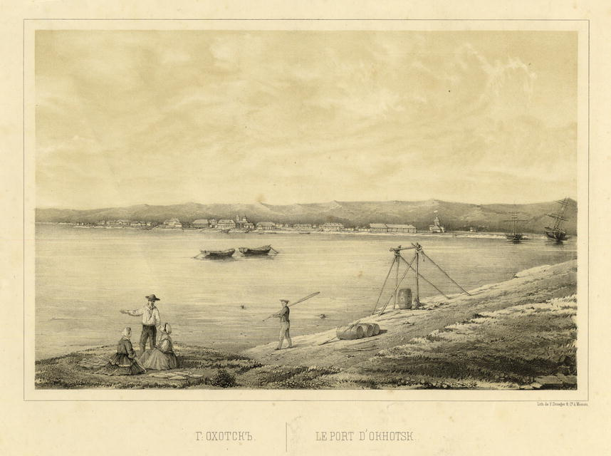 Okhotsk